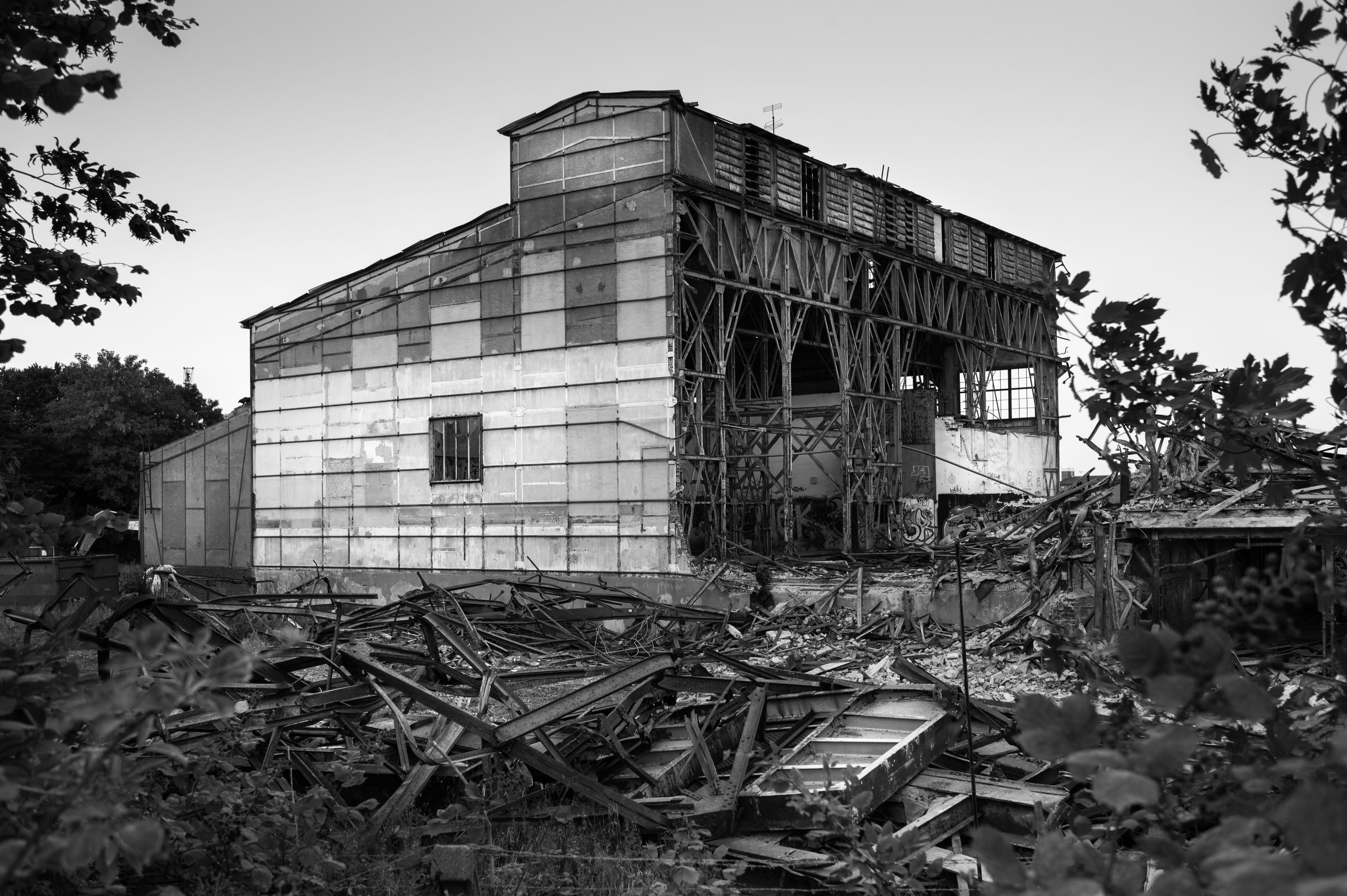 Demolition of the former power station Suedzentrale in Wilhelmshaven, Germany. The image documents the situation on August 13, 2015.